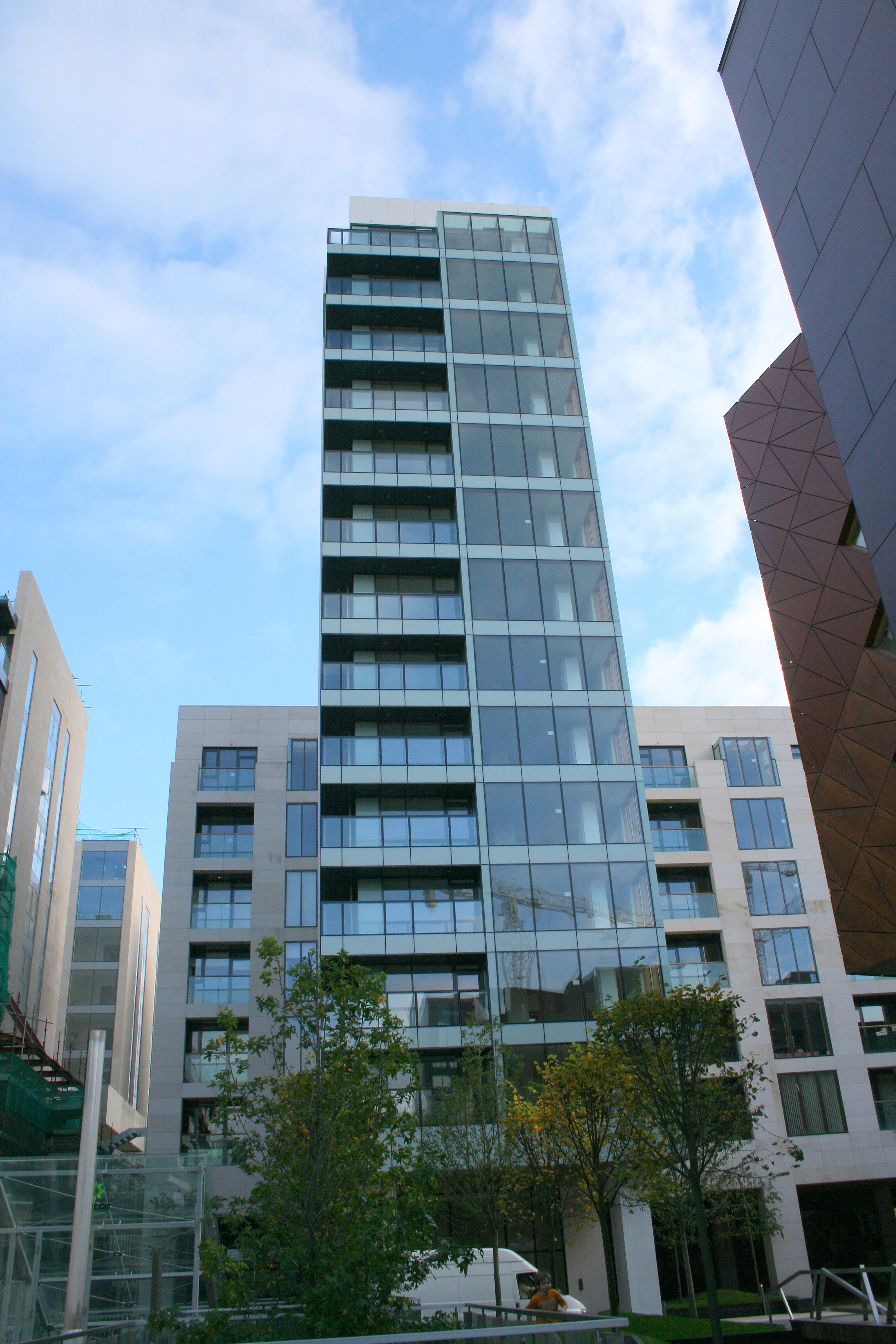 Beacon Tower, Sandyford, Dublin, Ireland.